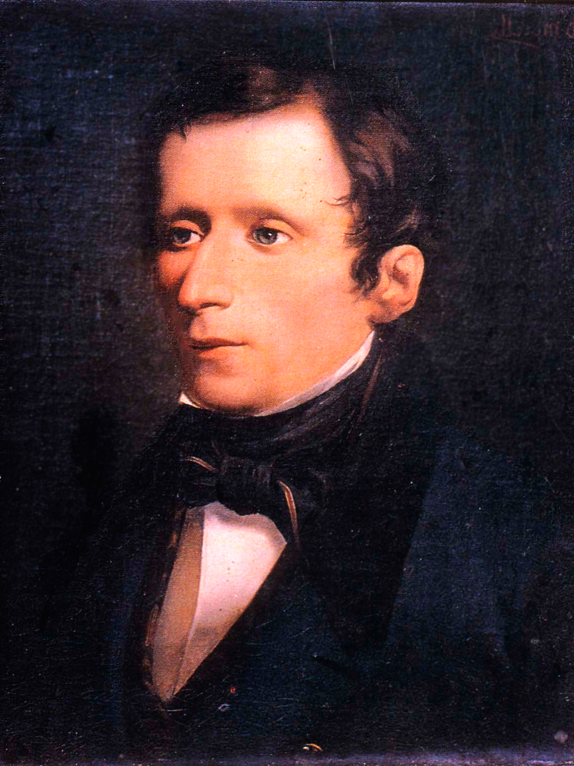 l Portrait of the italian great writer Giacomo Leopardi